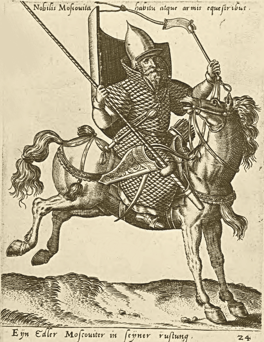 Noble Moscowit